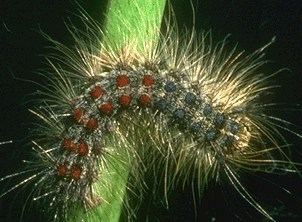 Fifth instar larva of Gypsy Moth Lymantria dispar (L.)